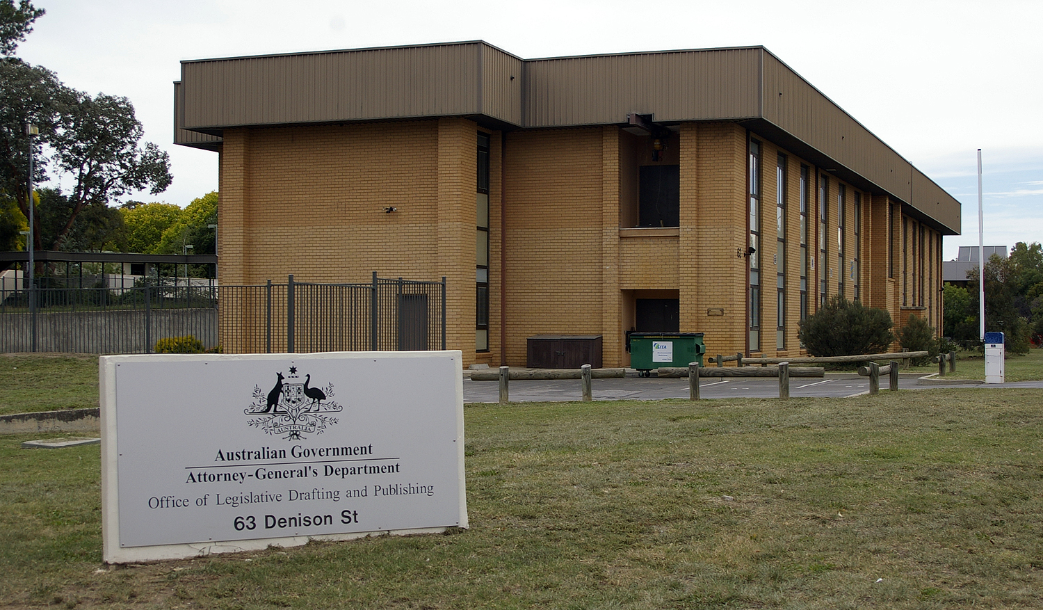 Attorney-General's Department - Office of Legislative Drafting and Publishing in Deakin, Australian Capital Territory